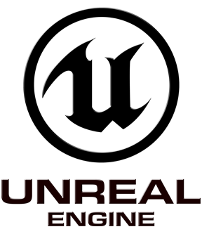 This is a logo for Unreal Engine.